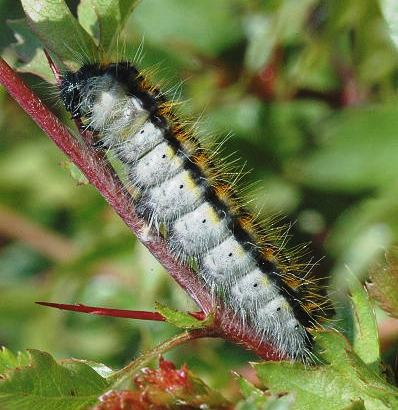 Picture taken in Commanster, Belgian High Ardennes . Species: Aporia crataegi caterpillar